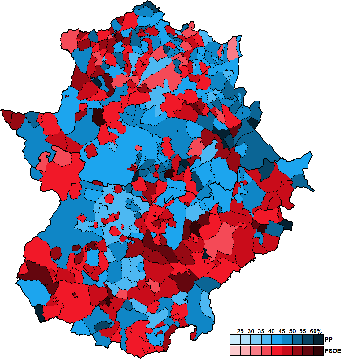 Most-voted party in Extremadura municipalities, showing vote share obtained, in the Spanish general election, 2016.